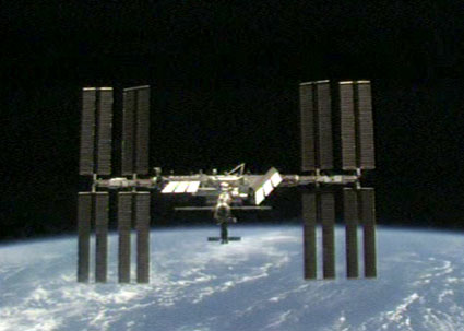 A video camera aboard Space Shuttle Discovery captured this image of the International Space Station shortly after undocking from the station.